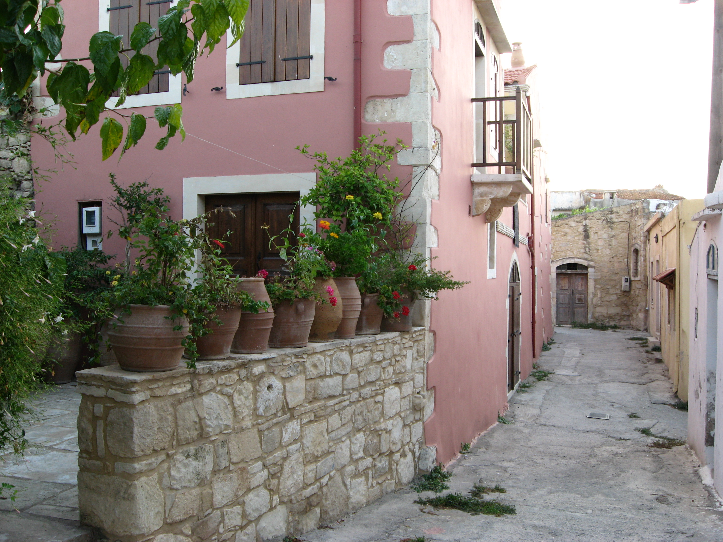 Margarites Milopotamou, Greece